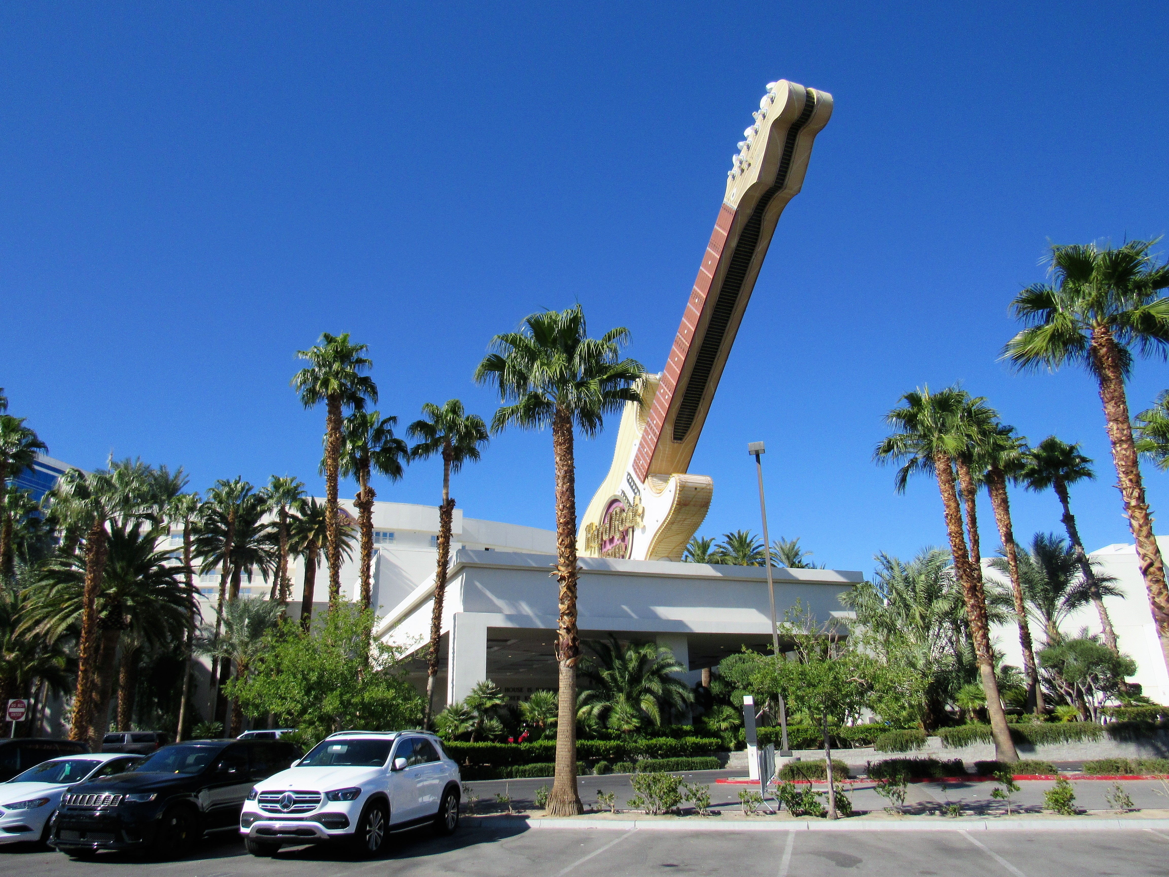 Hard Rock Hotel and Casino in Las Vegas, Nevada.